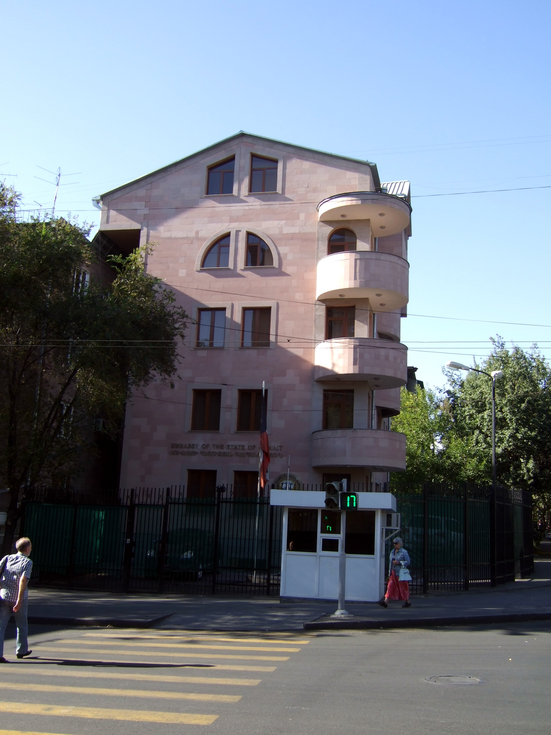 Iranian Cultural Centre in Yerevan, Armenia, former building of the Embassy of Kuwait.